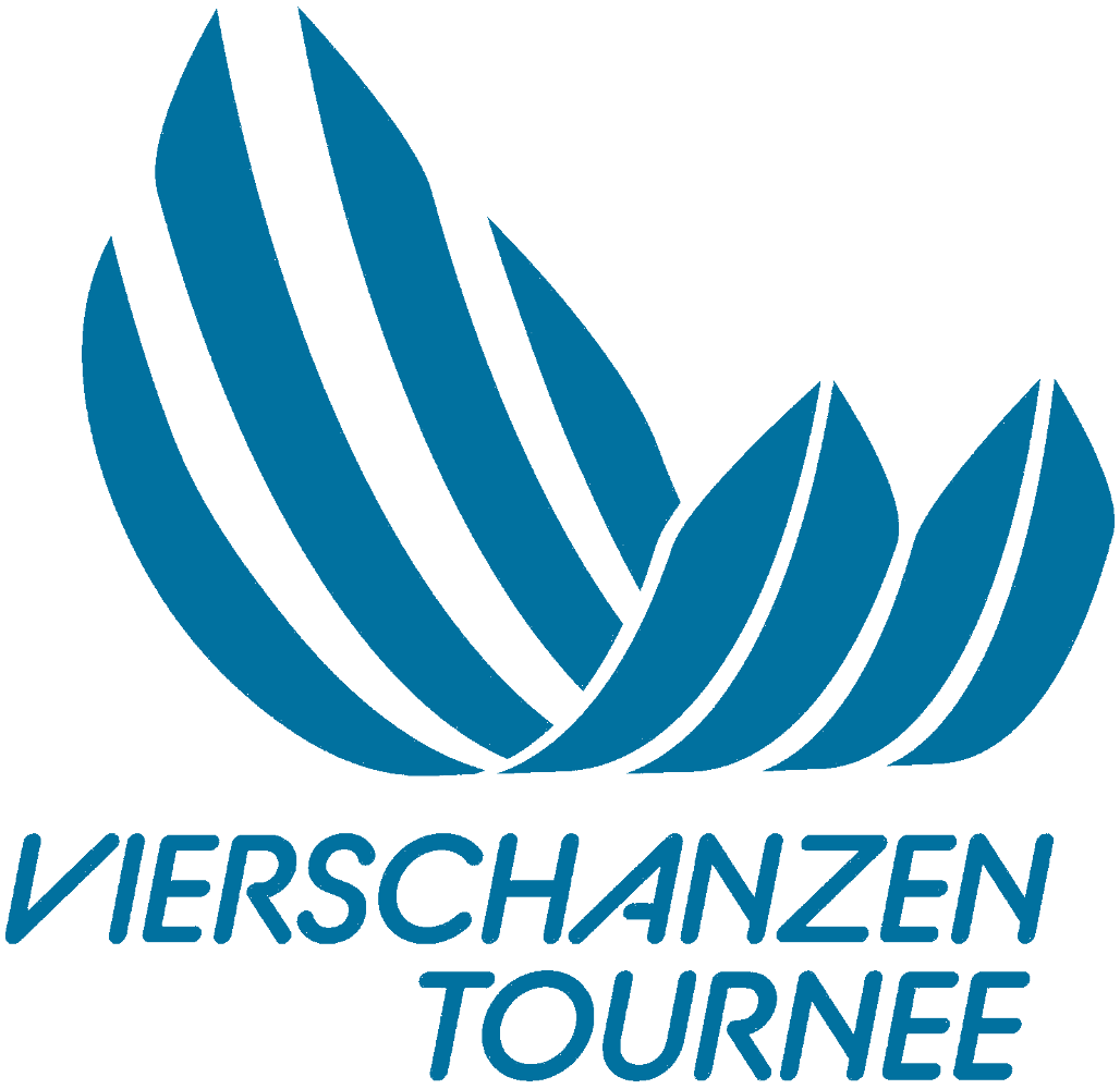 Logo of the Four Hills Tournament (aka Vierschanzentournee).